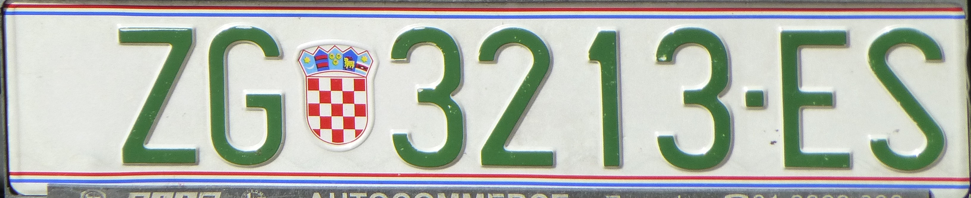 Croatian license plate for foreigners and interational organisations. ZG = Zagreb